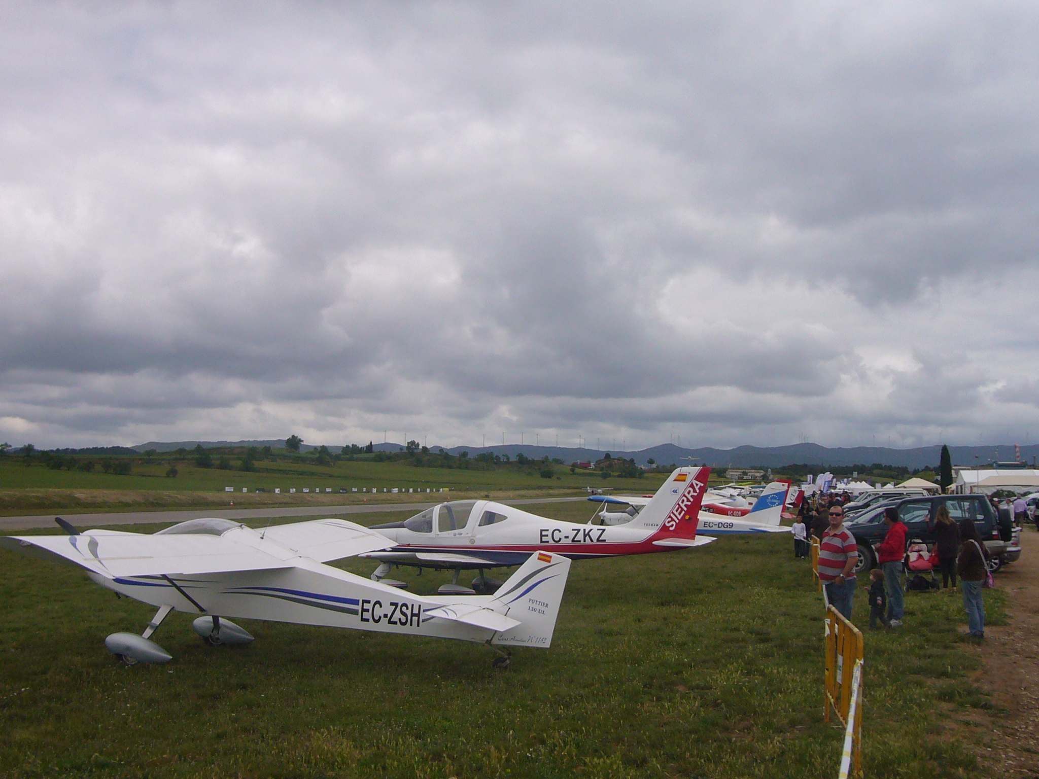 Aerosport 2011. Aircraft at the front is a Pottier P.130 ultralight plane, which can be self constructed.